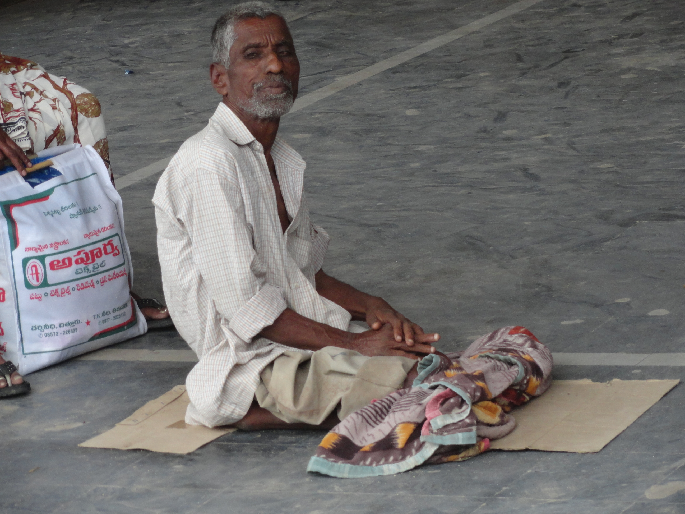 కుంటి వాడు. పాకాలలో తీసిన చిత్రం